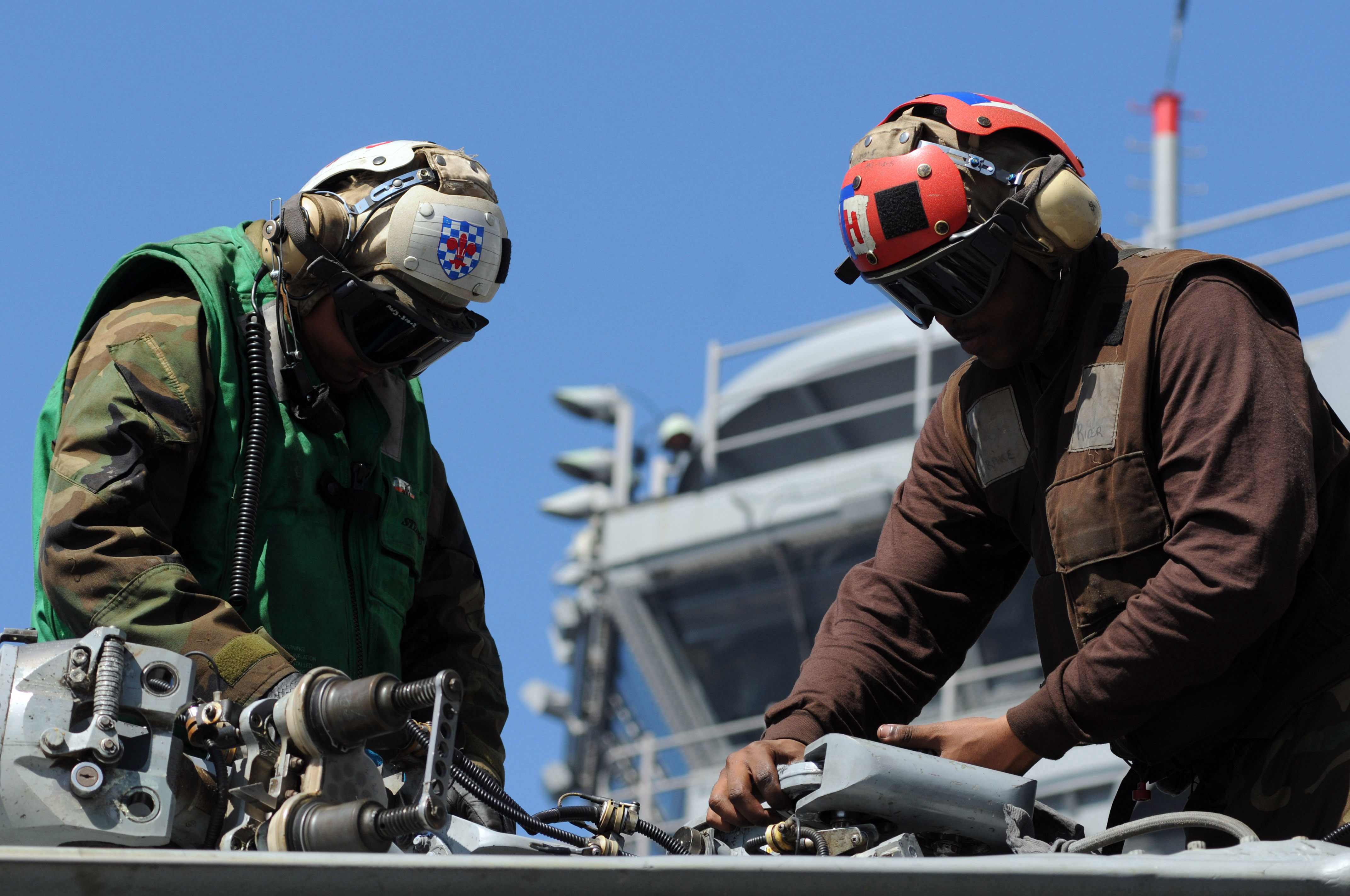 PACIFIC OCEAN (Feb. 20, 2009) Aviation Structural Mechanic 1st Class Ernesto Pagulayanl, left, and Aviation Structural Mechanic Airman Alan Alexander sit atop a SH-60 Sea Hawk, assigned to "Black Knights" Helicopter Anti-Submarine Squadron (HS) 4, as they perform routine maintenance aboard the Nimitz-class aircraft carrier USS Ronald Reagan (CVN 76). Ronald Reagan is conducting fleet replacement squadron carrier qualification. (U.S. Navy photo by Mass Communication Specialist 3rd Class Torrey W. Lee/Released)